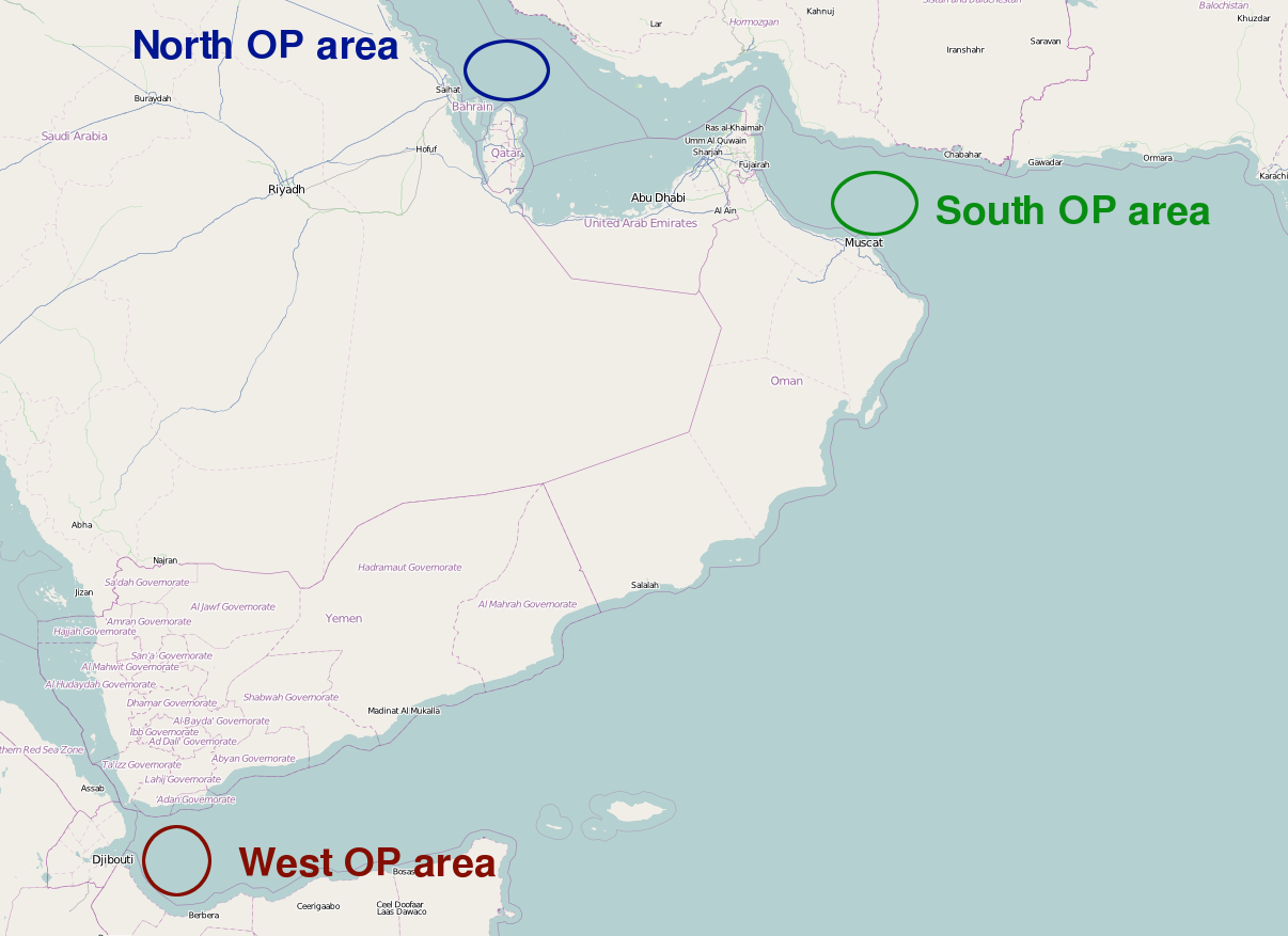 IMCMEX 2012 areas of operations